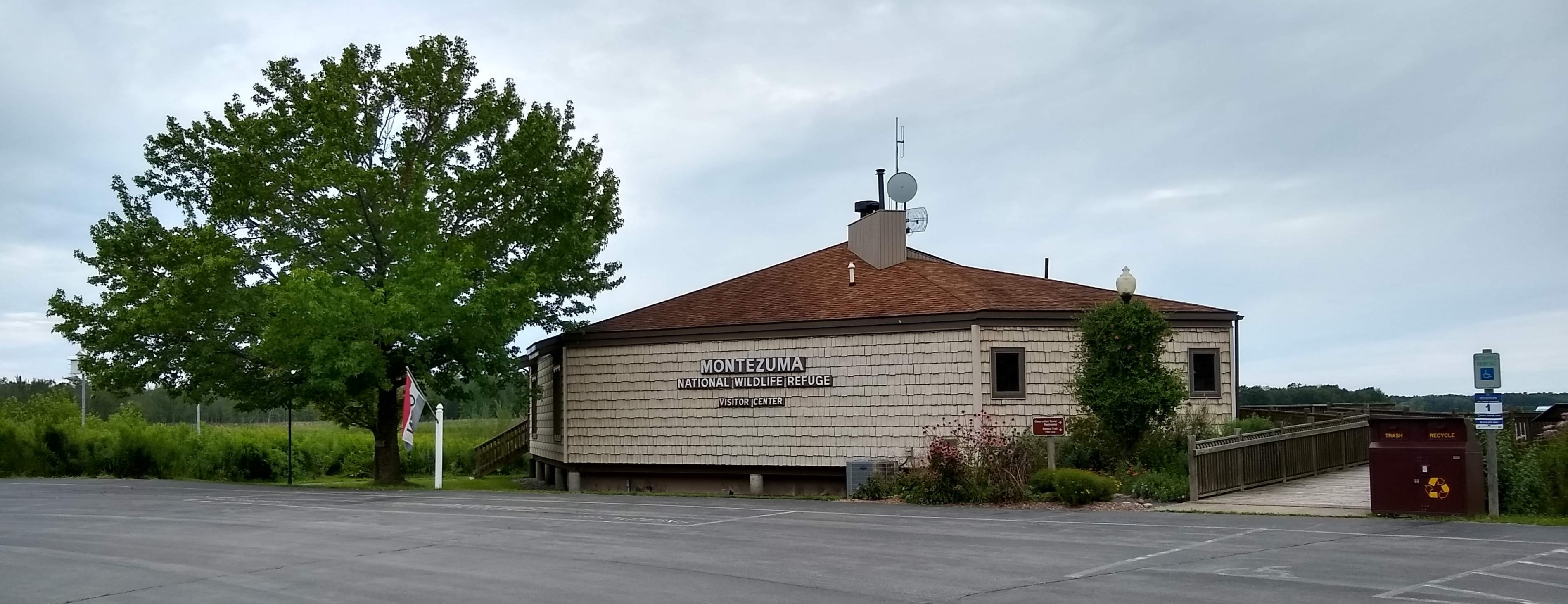 Exterior of Montezuma National Wildlife Refuge Visitors Center